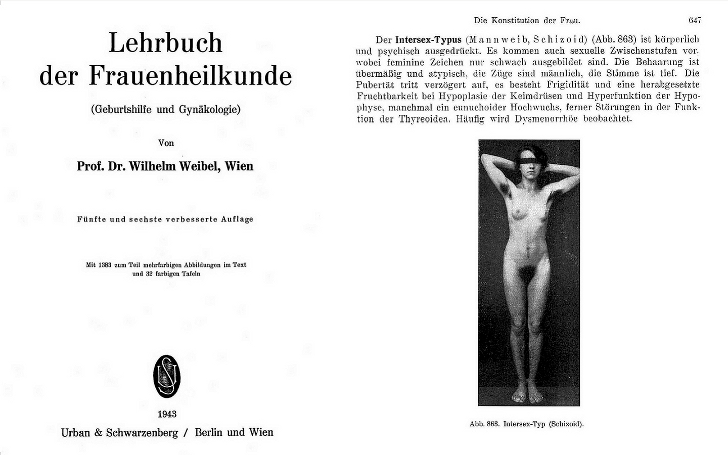 Medical pseudo-diagnosis Intersex-Typus (Mannweib, Schizoid) in Nazi Germany: In: Wilhemm Weibel: Lehrbuch der Frauenheilkunde. Urban & Schwarzenberg (publishers), Berlin and Vienna 1943, page 647.